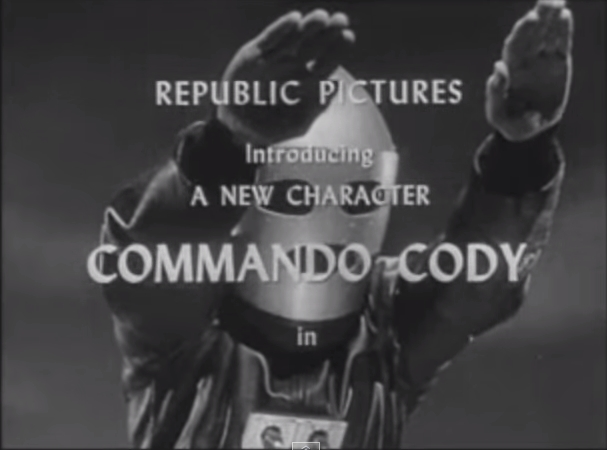 This started as a frame capture from a public-domain video of the Republic serial RADAR MEN FROM THE MOON.